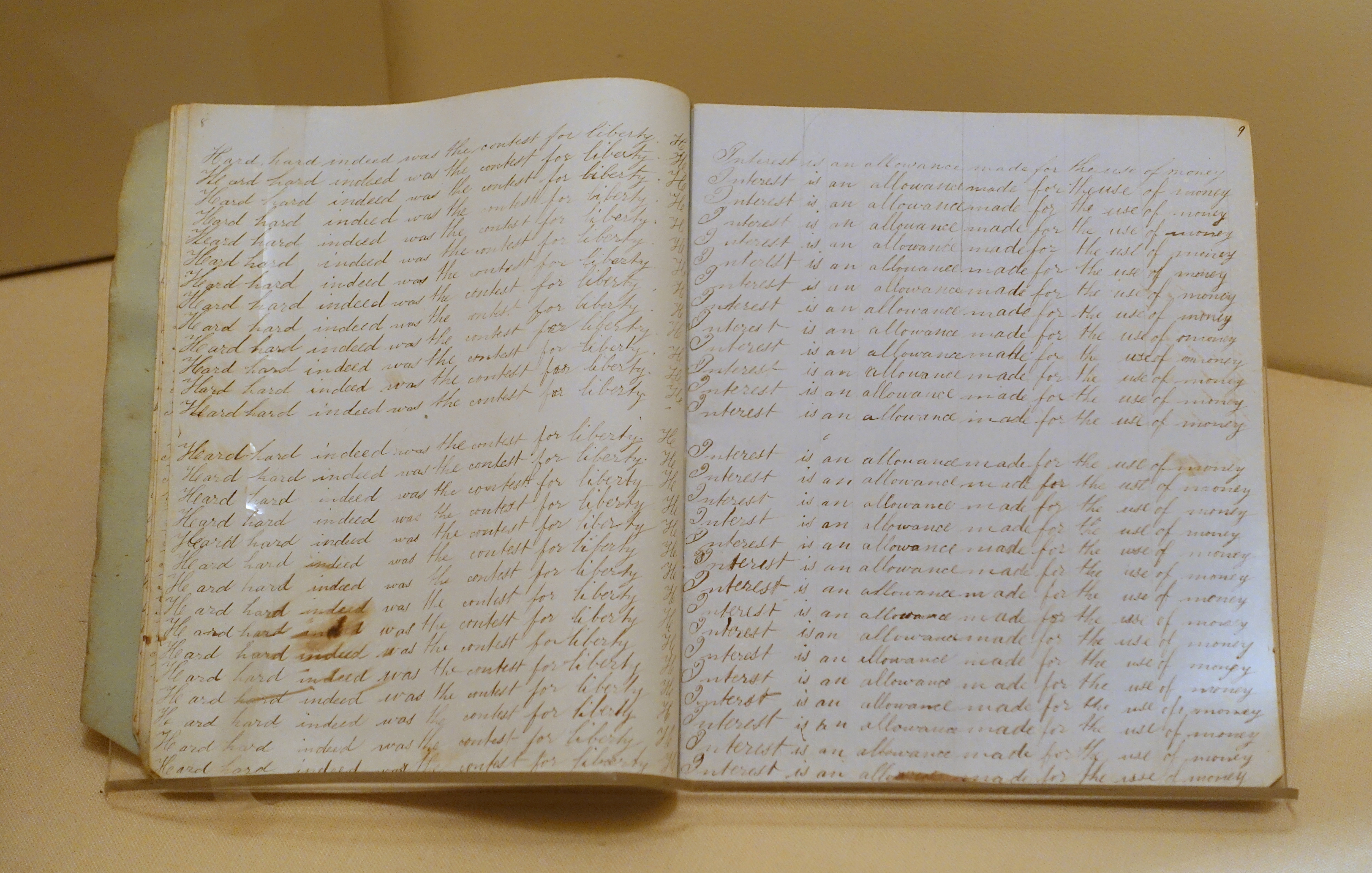 Exhibit in the Concord Museum, Concord, Massachusetts, USA.